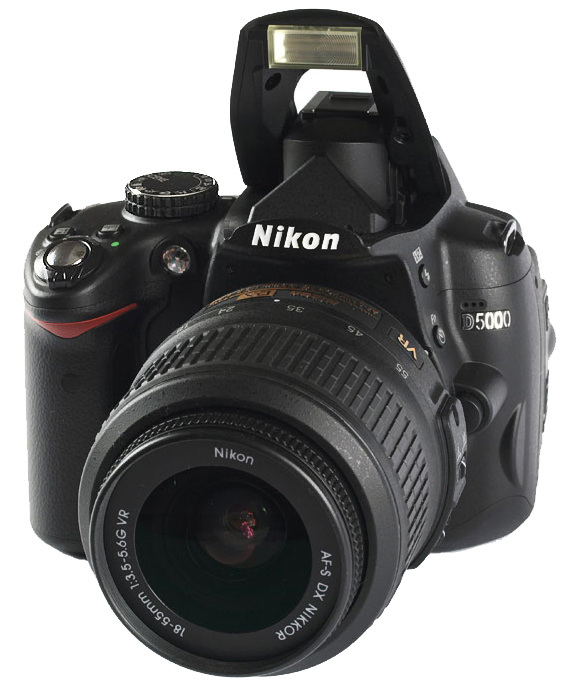 Camera Nikon D5000 and KIT Photographic Lens.